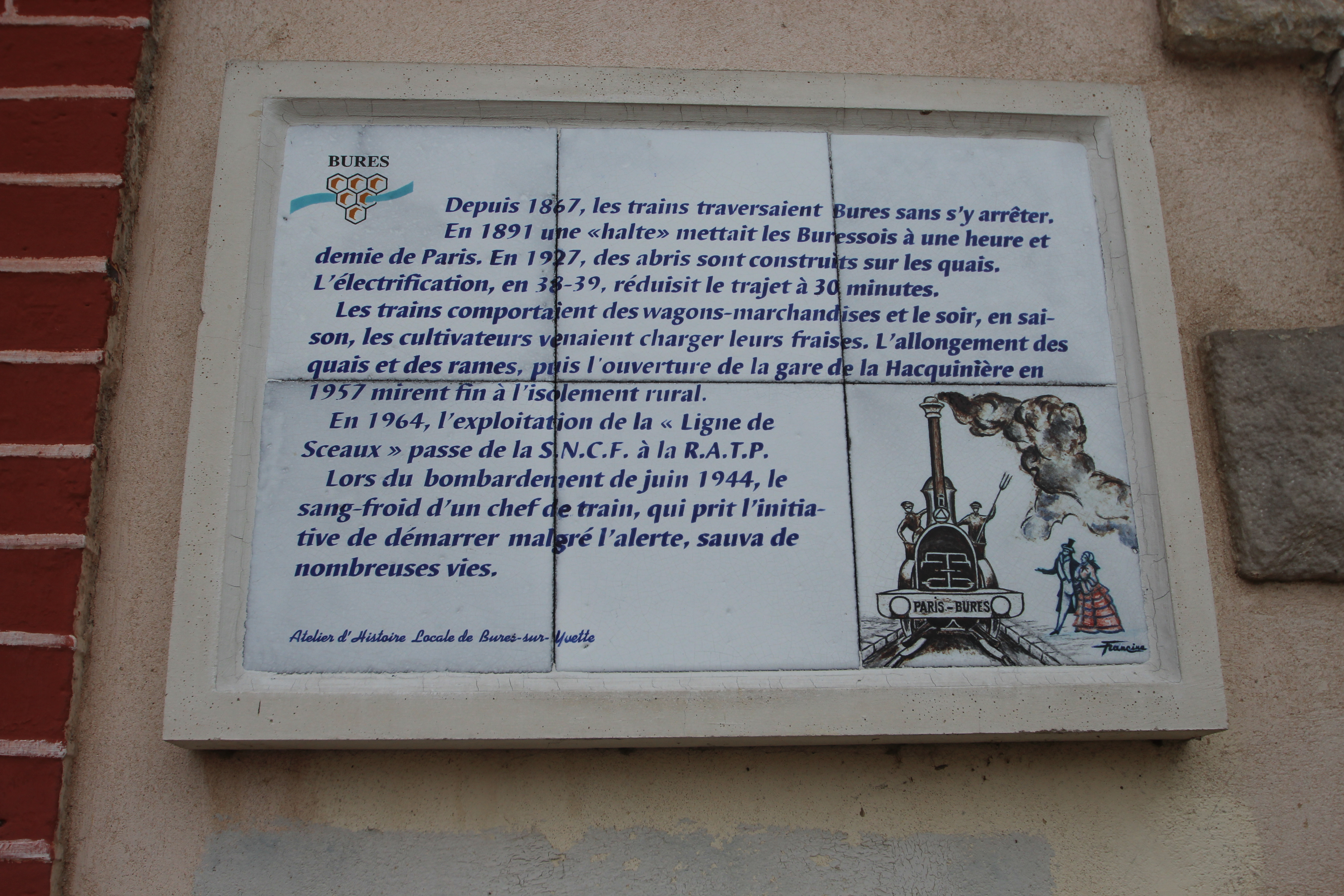 Train station of Bures-sur-Yvette, France.